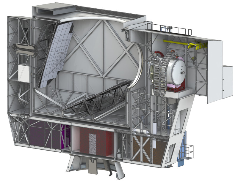 A cross section through the Simons Observatory's Large Aperture Telescope. The Primary mirror is 6meters in diameter and in the center and the secondary is to its left. The receiver sits to the right of the elevation bearing and is over 2.4m in diameter.